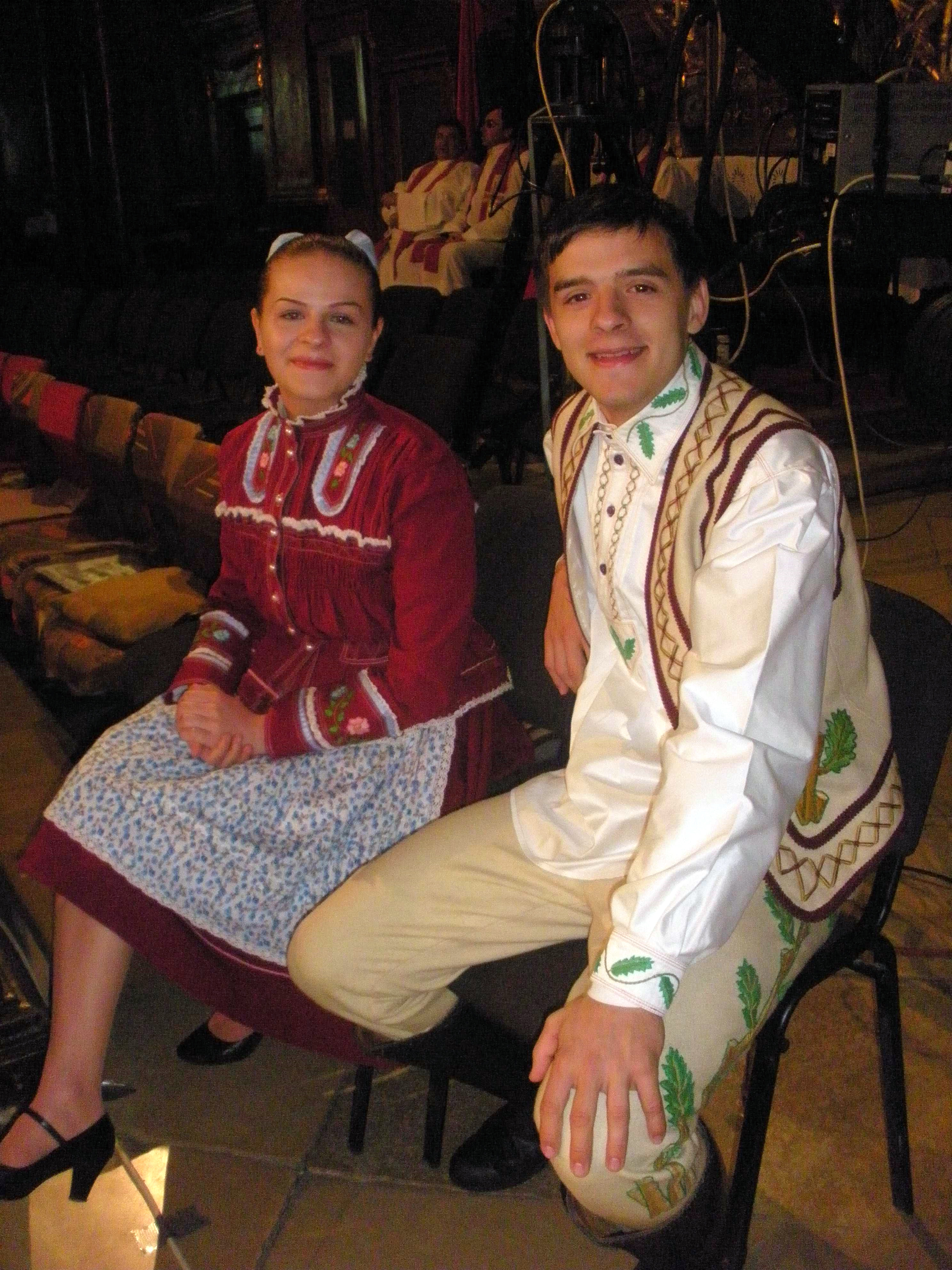 Jana and Jano in Slovakian national costums during beatification of bishop and martyr Szilárd Bogdánffy in Oradea (Veliki Varadin) in Romania